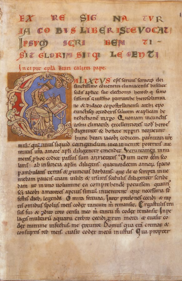 Codex Calixtinus